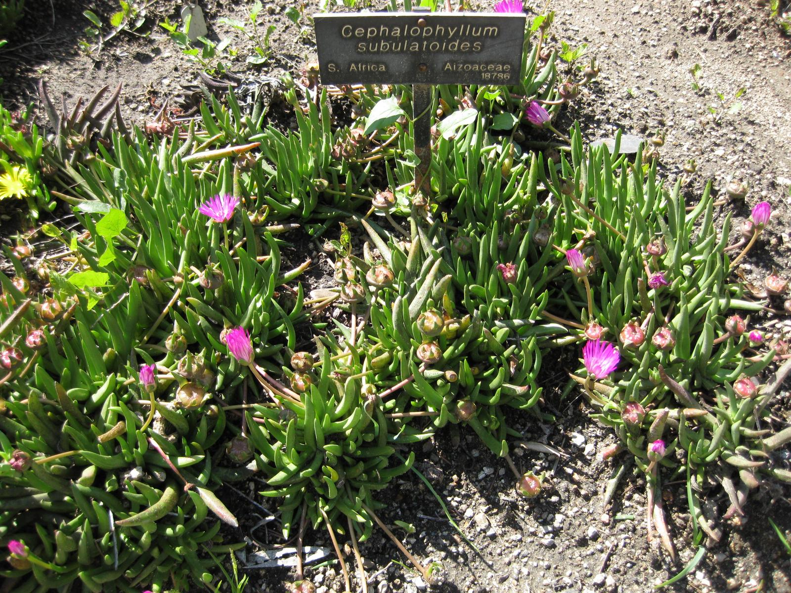 Photographed at Huntington Gardens (Los Angeles, California) in March